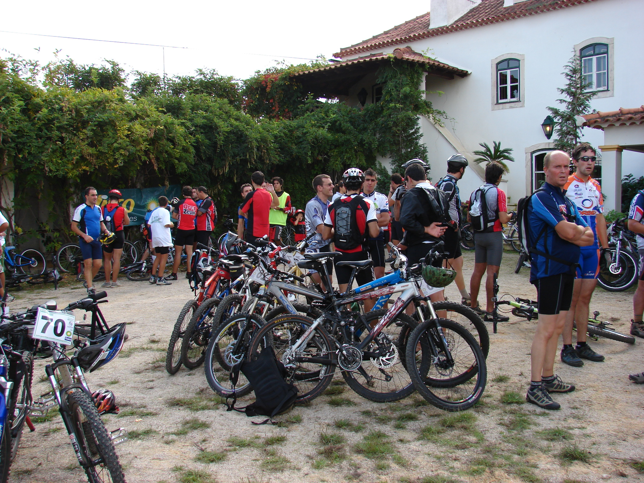 BTT CLUBE DOS PINHEIROS EVENT